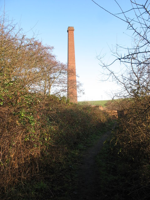 Approaching the Cemaes Brick Factory